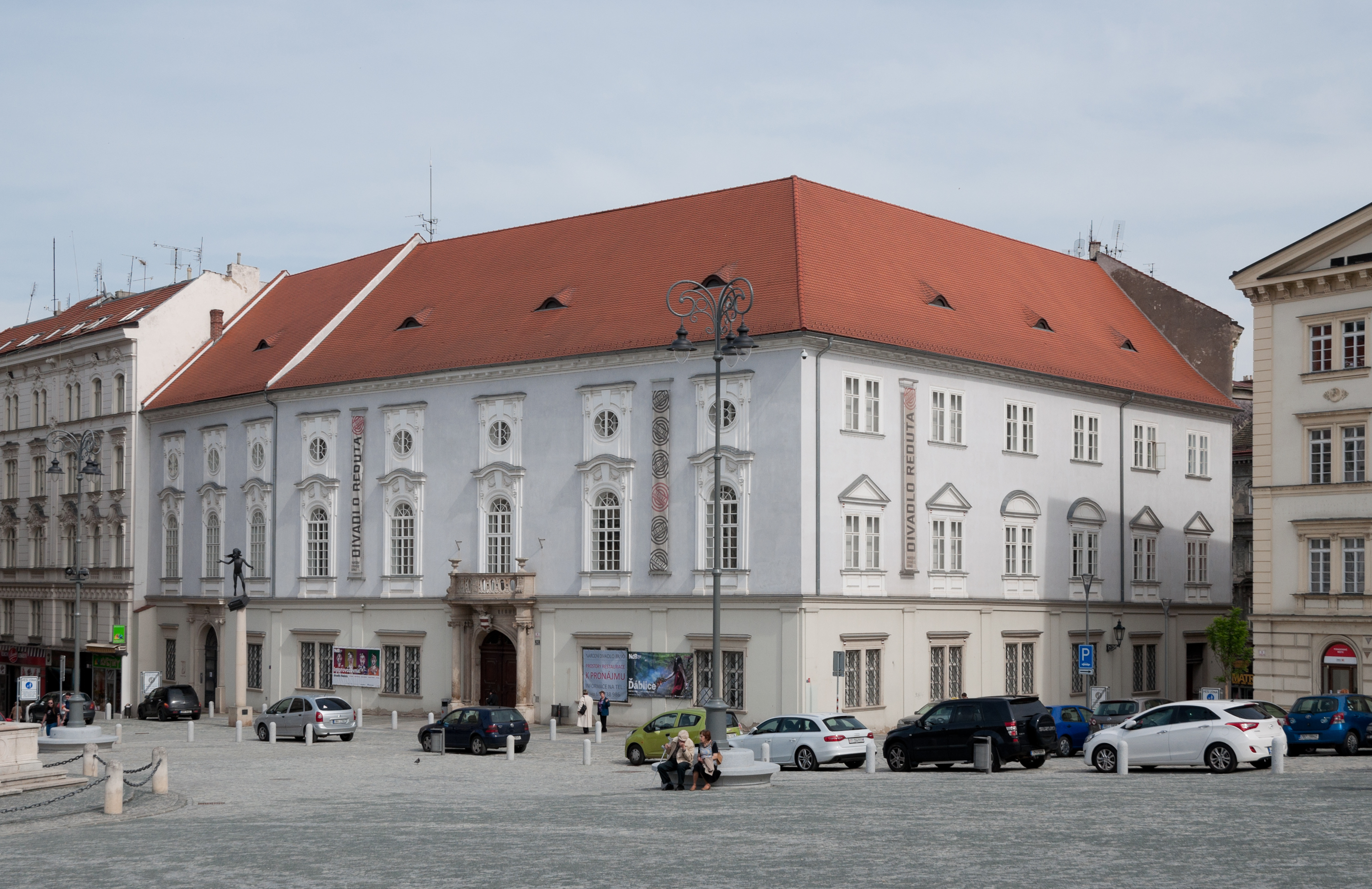 Reduta Theatre on The Green Market square in Brno, Czech Republic.